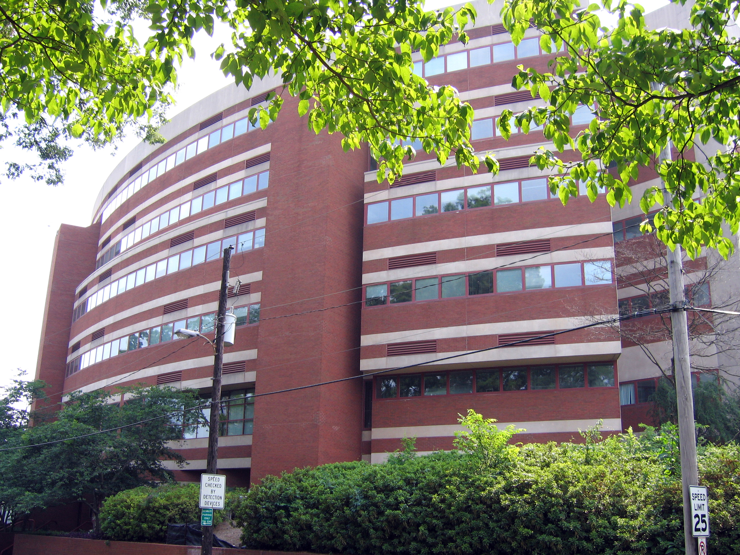 Description: the Centennial Research Building, Georgia Tech Research Institute's headquarters. Source: I, User:Disavian, took this picture on 2007-05-27.